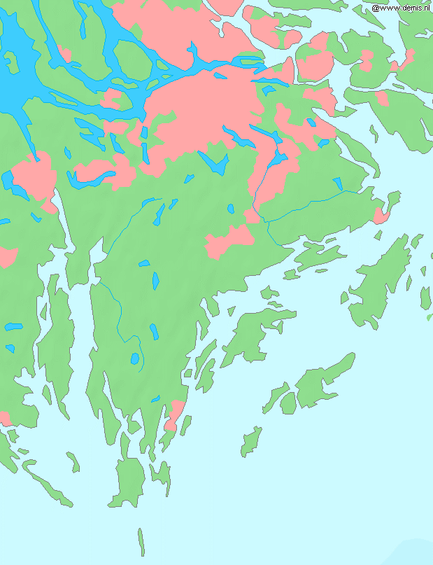 Södertörn, a peninsula in Sweden. Bounding box West 17.55°, South 58.73°, East 18.55°, North 59.4°. Center at 59°03′54″N 18°03′00″E / 59.06500°N 18.05000°E.